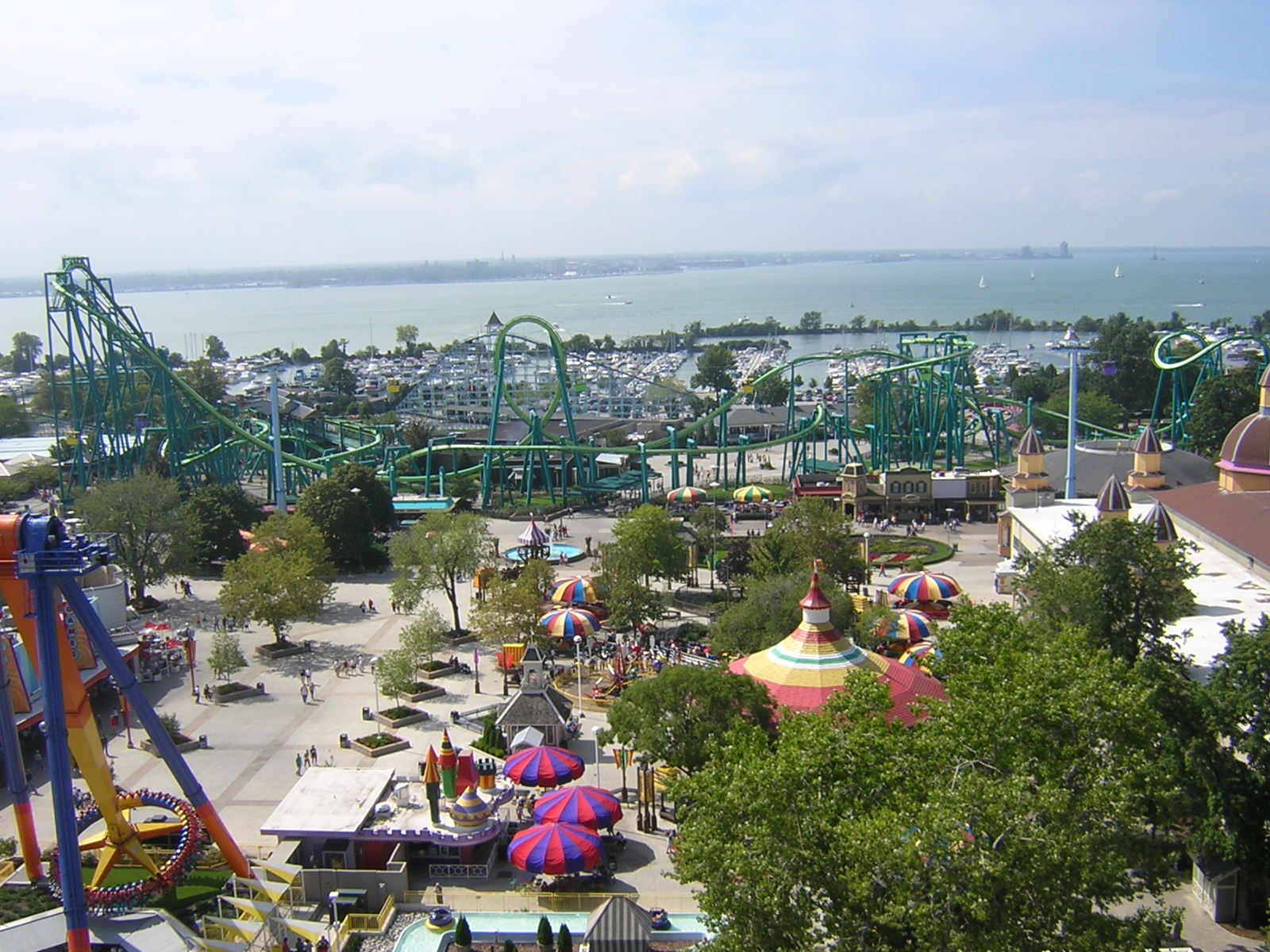 A scene from Cedar Point, an amusement park located in Sandusky, Ohio on Lake Erie. Cedar Point is owned and operated by Cedar Fair, L.P.. This is a view of the east side of the park, includindg kiddyland, and the marina, from the giant (ferris) wheel. The large green coaster in the main part of the view is Raptor, with Blue Streak behind it